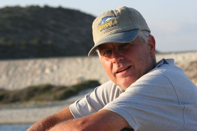 Portrait of Mike Slee, Television producer and Director